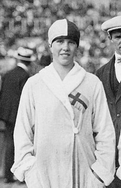 Eva Olliwer of Sweden, bronze medal winner in the women's platform diving event, at the Olympic Games in Antwerp, circa August 1920.